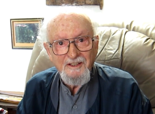 The Israeli poet, editor, translator and photographer Tuvya Ruebner (Tuvia Rübner, טוביה ריבנר) in March 2012